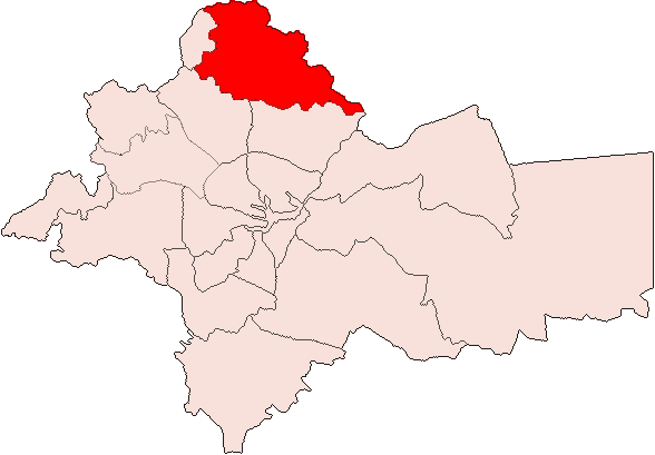 AMMAN-Shafa Badran.png — Maps of Amman User:Tarawneh/rami